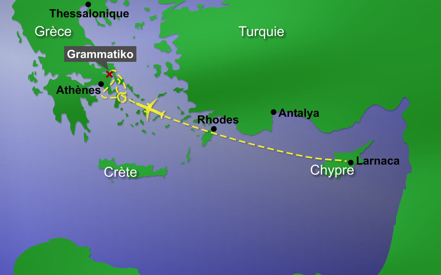 Map of Helios Airways Flight 522. Helios Airwyas Flight 522, crashed on August 14, 2005 near the community of Grammatiko in Greece. The map shows, how the flight proceeded. First, the autopilot controled the airplane in the direction of Athens airport. Then the airplane flew to the south and flew loops over the Ägais for about three hours. After that, the airplane flew in the direction of Athens airport again, until it crashed nearby Grammatiko.